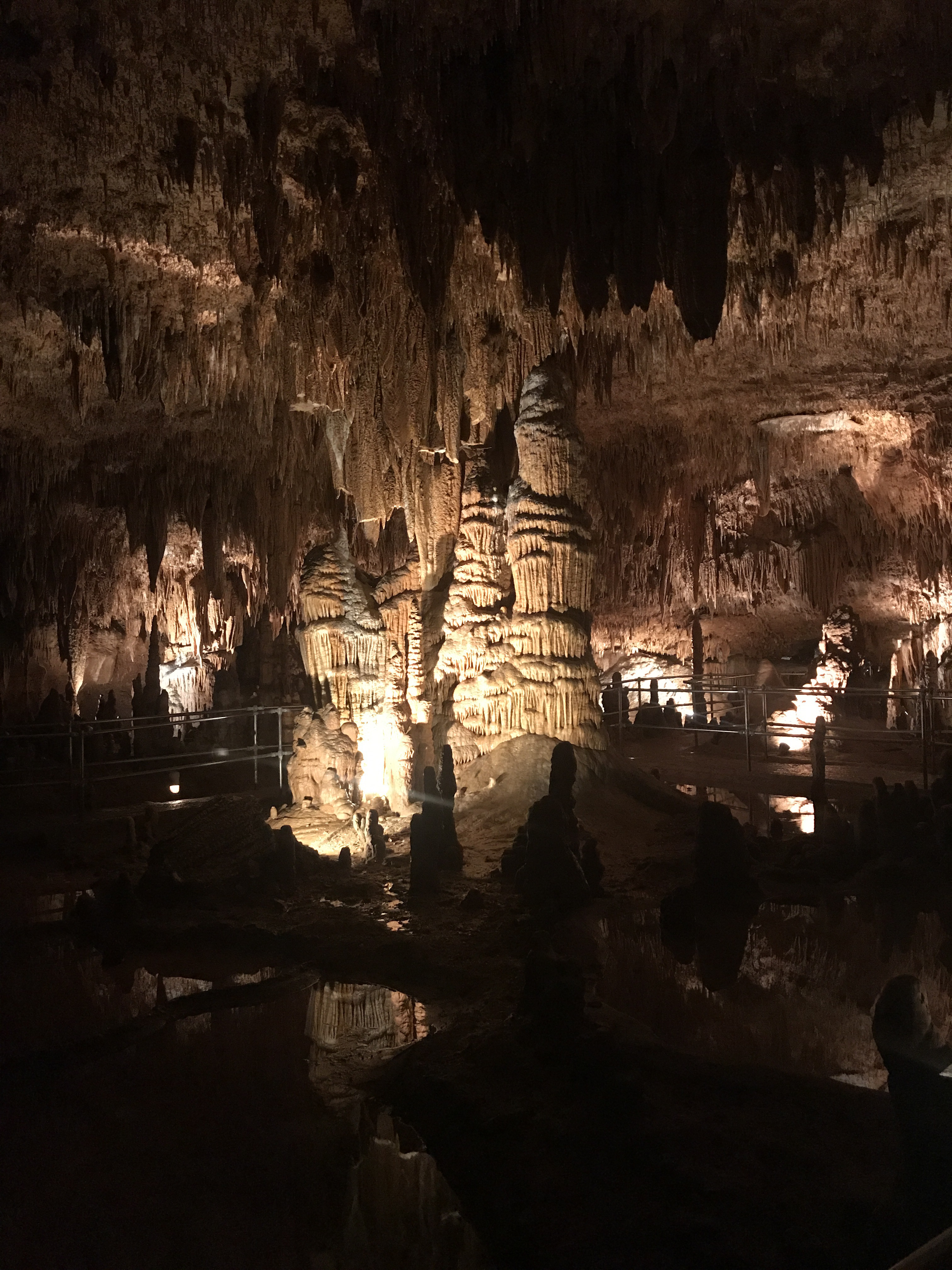 Onondaga Cave State Park formation known as the Rock of Ages. Taken on cave tour 9-23-17